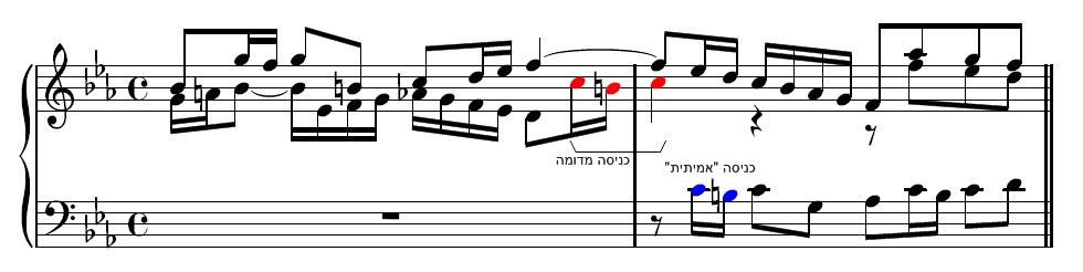 Example of a so-called 'false-entry' in J.S. Bach's Fugue no. 2 in C minor, from the Well-Tempered Clavier Book 1, BWV 847. Typeset in Lilypond and placed by typesetter in the public domain.